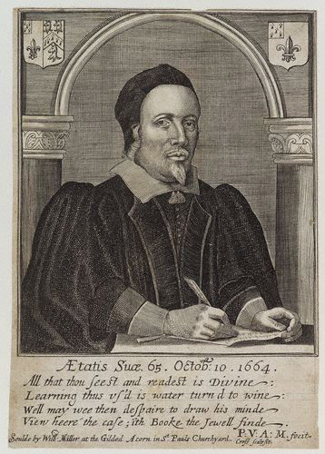 Portrait of Samuel Clarke (1599-1683), minister and biographer.